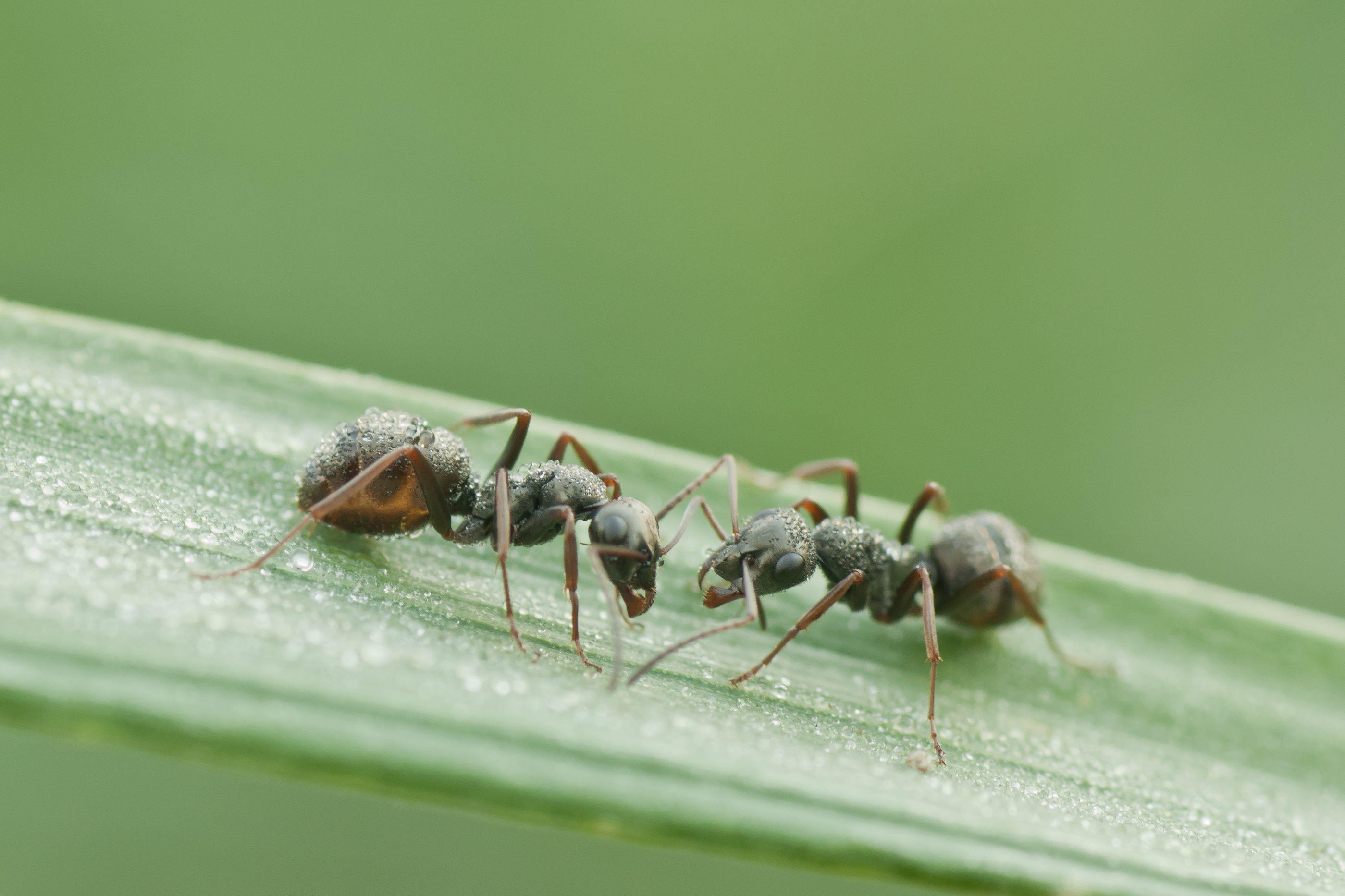 Formica fusca, the common black ant of Europe, is a palaearctic ant with a range extending from Portugal in the west to Japan in the east and from Italy in the south to Fennoscandia in the north.